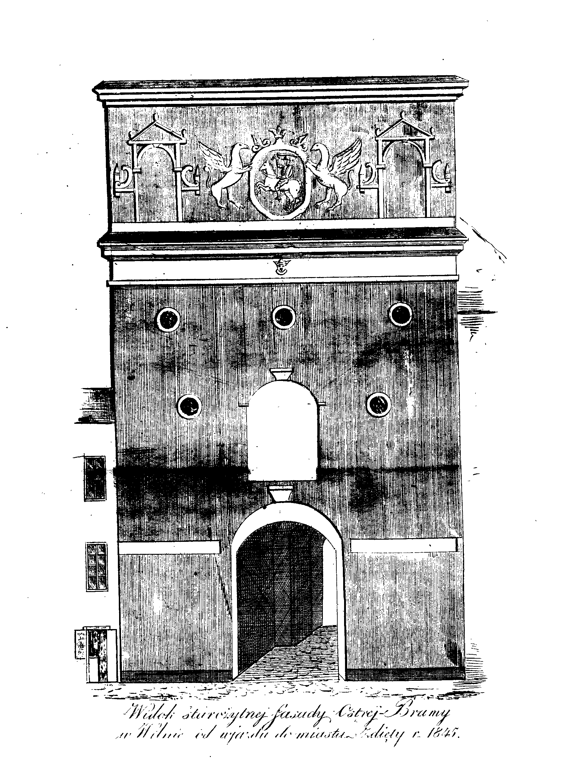 Ostra Brama gate (Gate of Dawn) in Vilna (modern Lithuania)